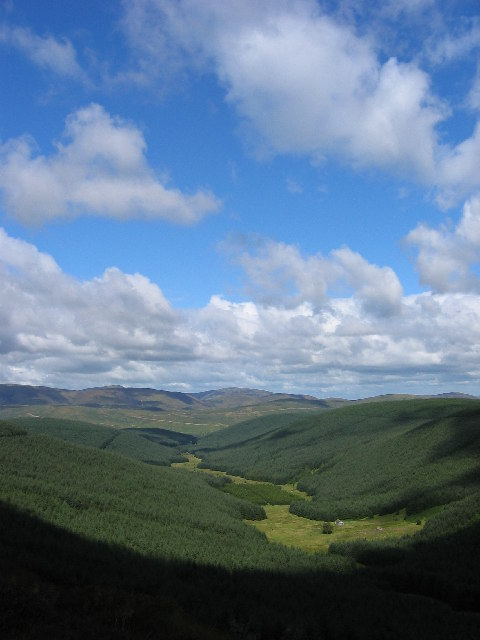 Over Menzion. The now ruinous old shepherd's cottage (low centre right) in the valley of the Menzion Burn surrounded by a commercial forest. The forestry is set back from the burn which is meant to reduce the immediate impact of the acidic run-off.